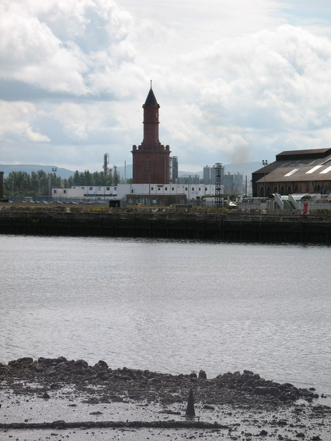 Dock Offices Clock Tower, Middlesbrough Taken from the north bank of the river, the late 19thC red brick tower is slowly being engulfed by new development.